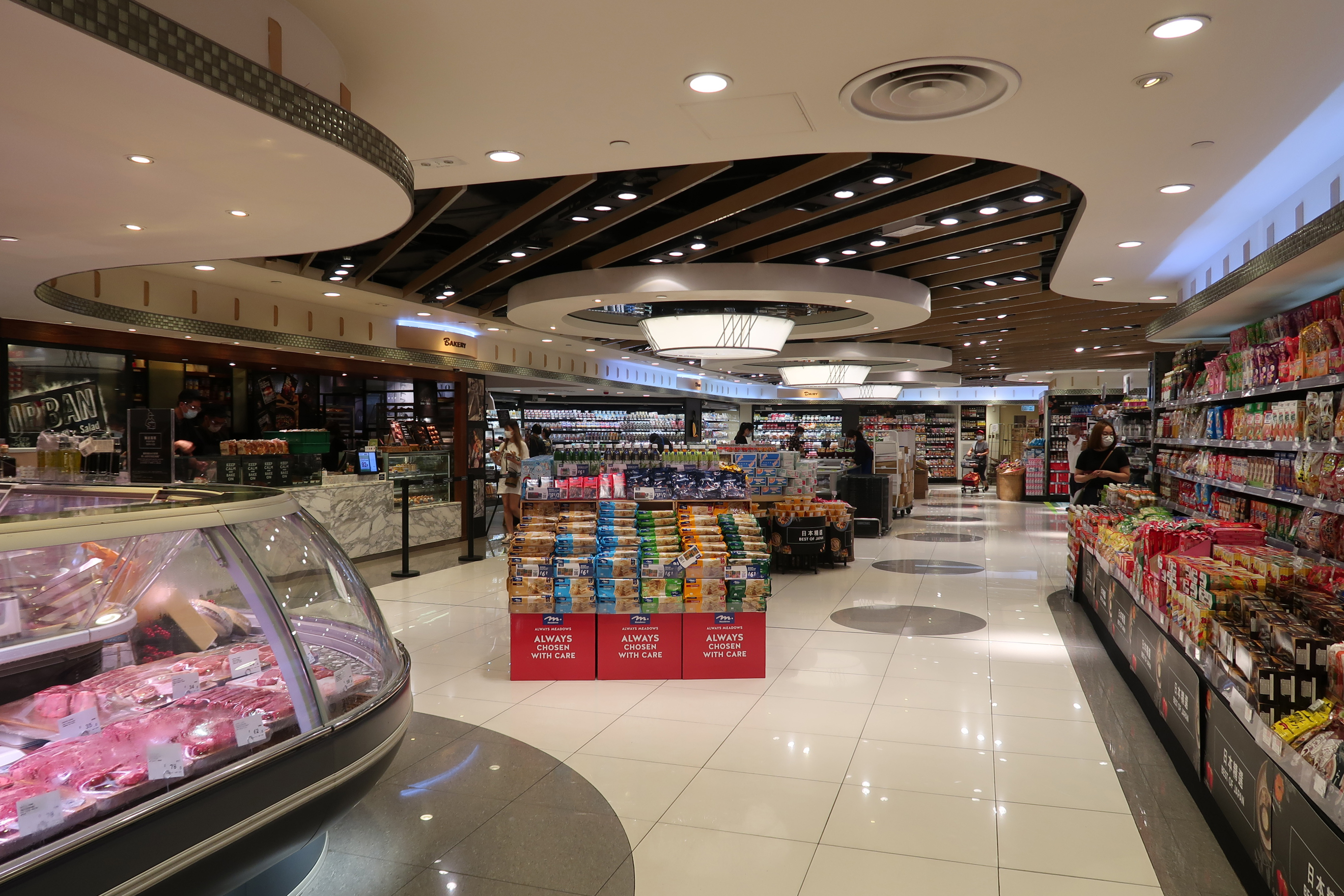 Hysan Place Market Place Interior